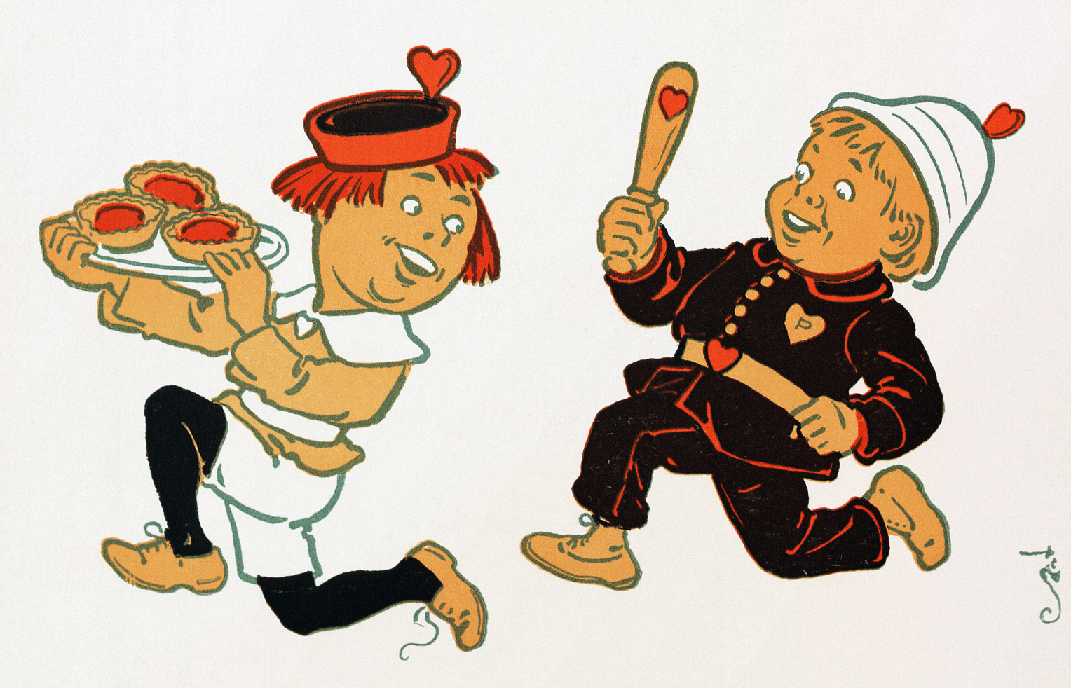 The Knave of Hearts, from a 1901 edition of Mother Goose.